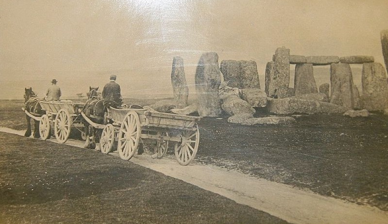 Stonehenge, Wiltshire, photograph with two farm carts, two cart horses and men